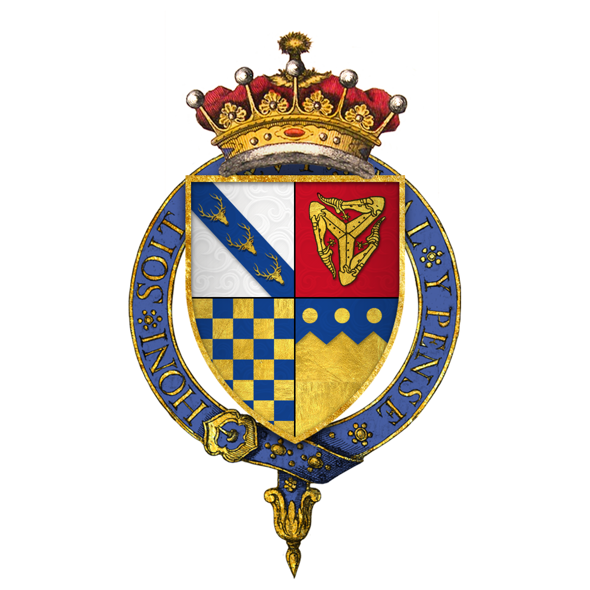 Quartered arms of Sir Thomas Stanley, 1st Earl of Derby, KG HOPE, W. H. St. John, The Stall Plates of the Knights of the Order of the Garter 1348 – 1485: A Series of Ninety Full-Sized Coloured Facsimiles with Descriptive Notes and Historical Introductions, Westminster: Archibald Constable and Company LTD, 1901. “Plate LXXXVI - Sir Thomas Stanley, Lord Stanley, Earl of Derby, K.G. 1483-1504... shield of arms: quarterly: 1, silver on a bend azure three stags' heads gold (for Stanley); 2, gules three legs in gold armour flexed in triangle (for the Isle of Man); 3, checky gold and azure (for Warenne); 4, gold a chief indented azure and three bezants on the chief (for Lathom).” The Stall plate remains intact within the twelth stall, on the Prince's side of the chapel.